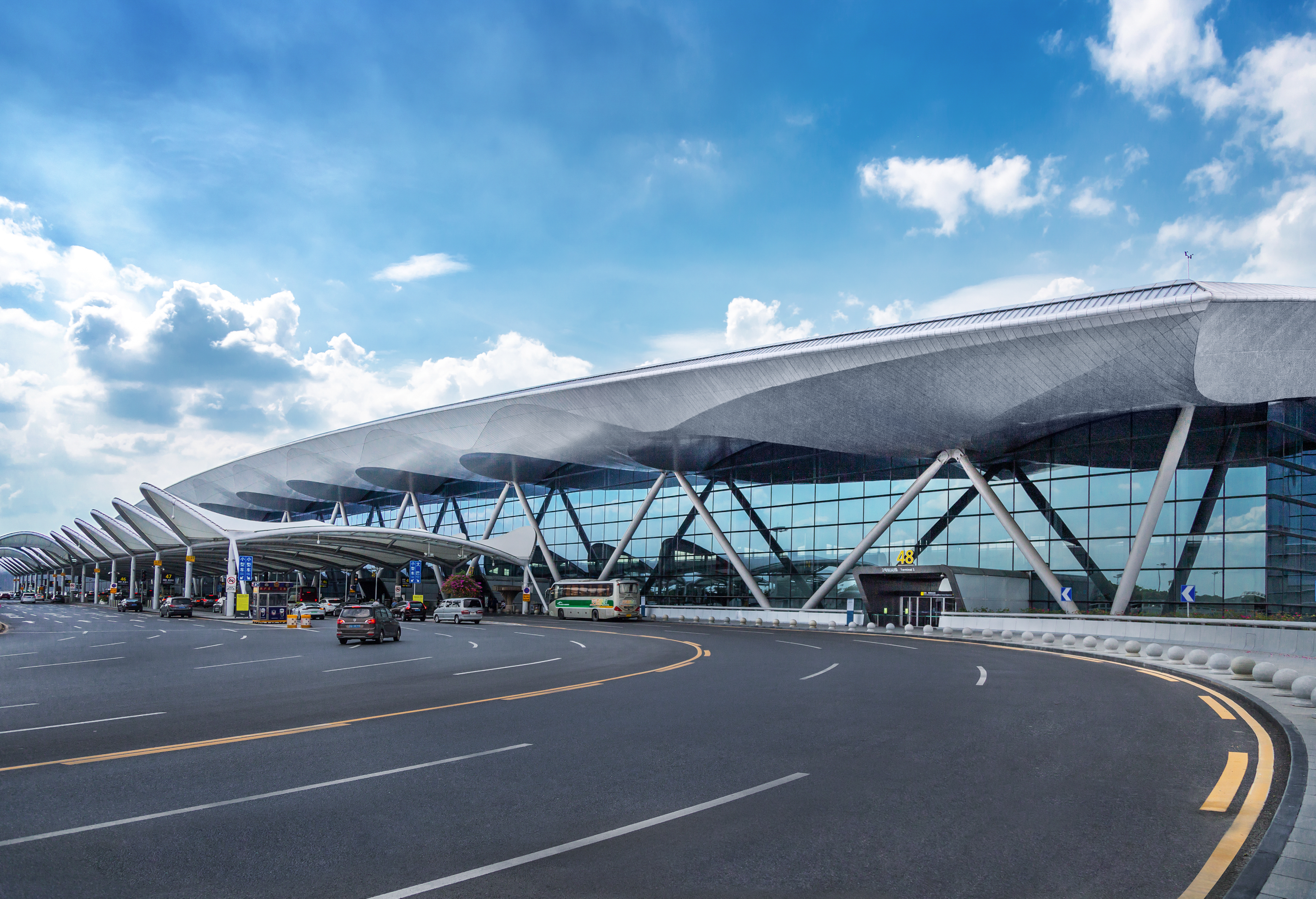 Entrance of Guangzhou Baiyun International Airport Terminal 2